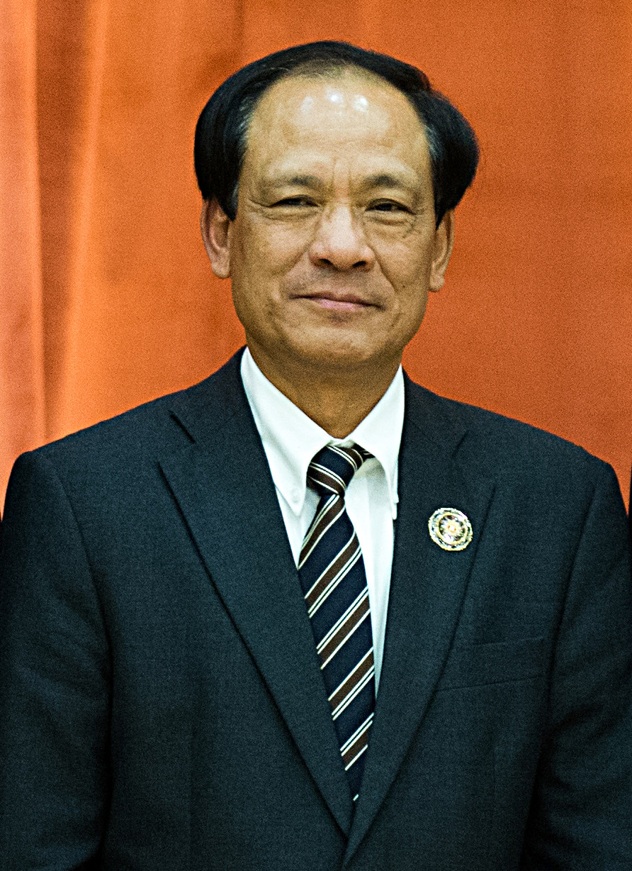 Lê Lương Minh